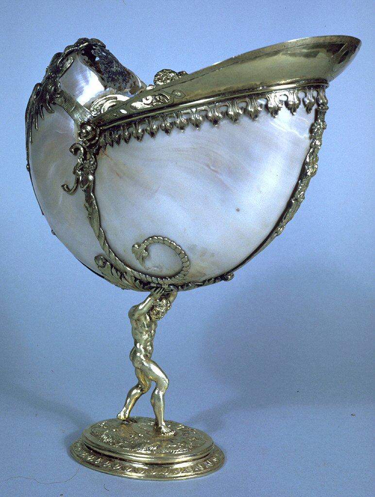 Shells of the pearly chambered nautilus were imported from the Indian and Pacific Oceans as natural marvels because of the lustrous beauty of the shell when polished and its amazing interior structure. A luxurious drinking vessel for court feasts, this cup underscores the host's magnificence and power over nature. Goldsmiths designing the mounts for these shells gave free rein to their imaginations, fashioning figures such as Atlas, a legendary titan of Greco-Roman mythology, who was said to balance the heavens on his back. The artist playfully calls attention to the artful contradictions of the piece. Although the shell is very light, Atlas' muscles are flexed in strain.